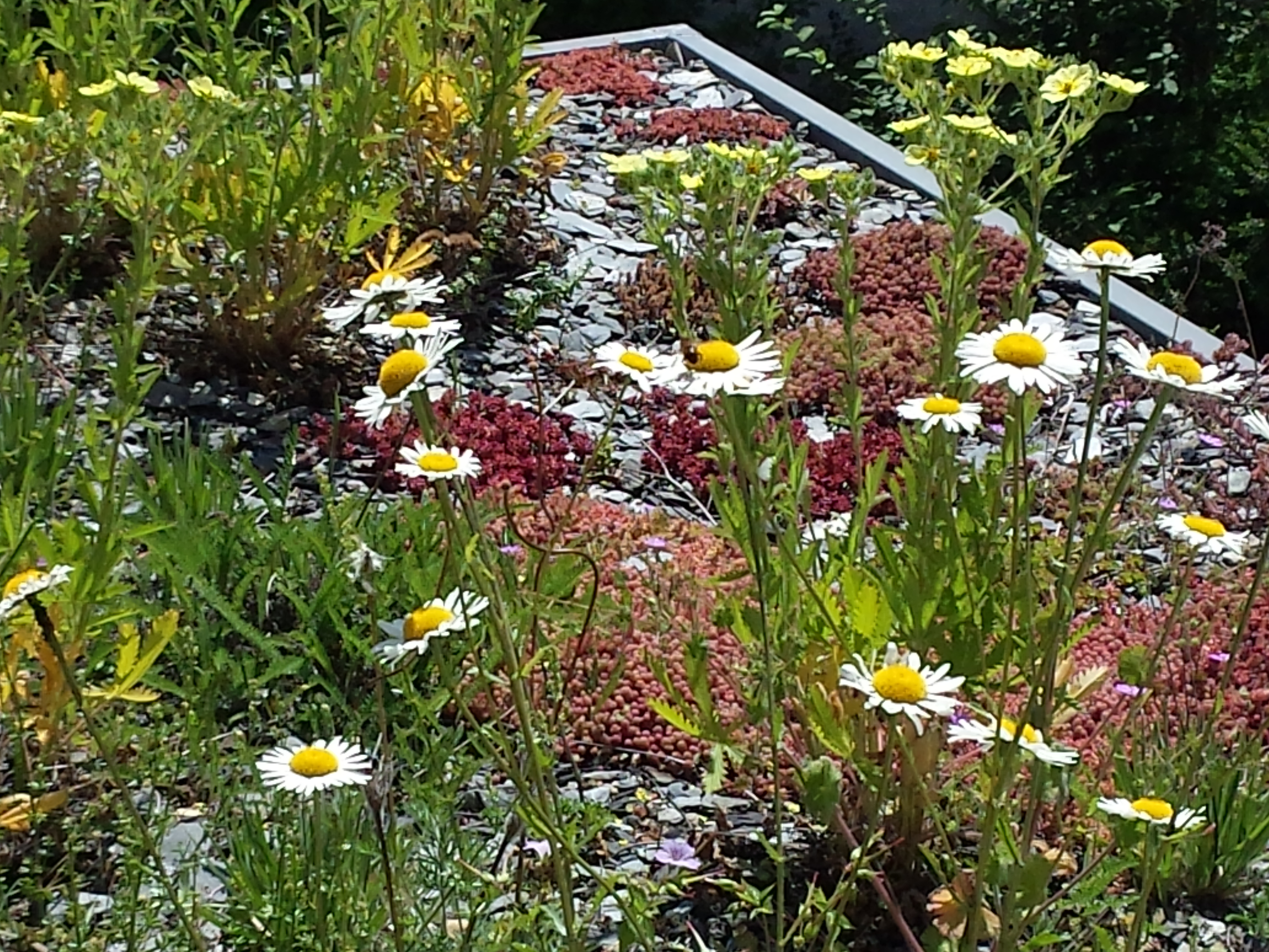 Green roof in Brussels